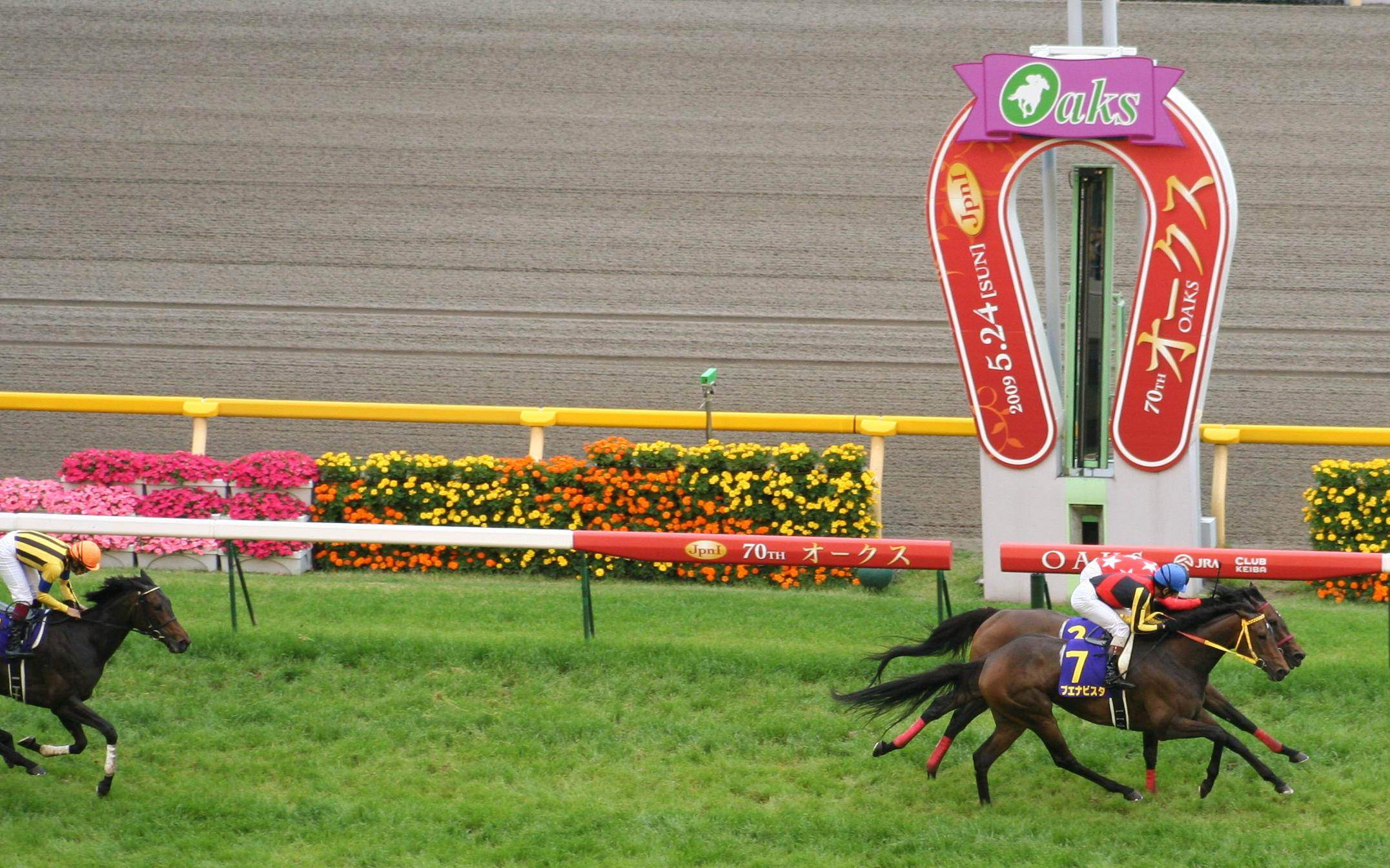 The 70th Yushun Himba (Japanese Oaks)